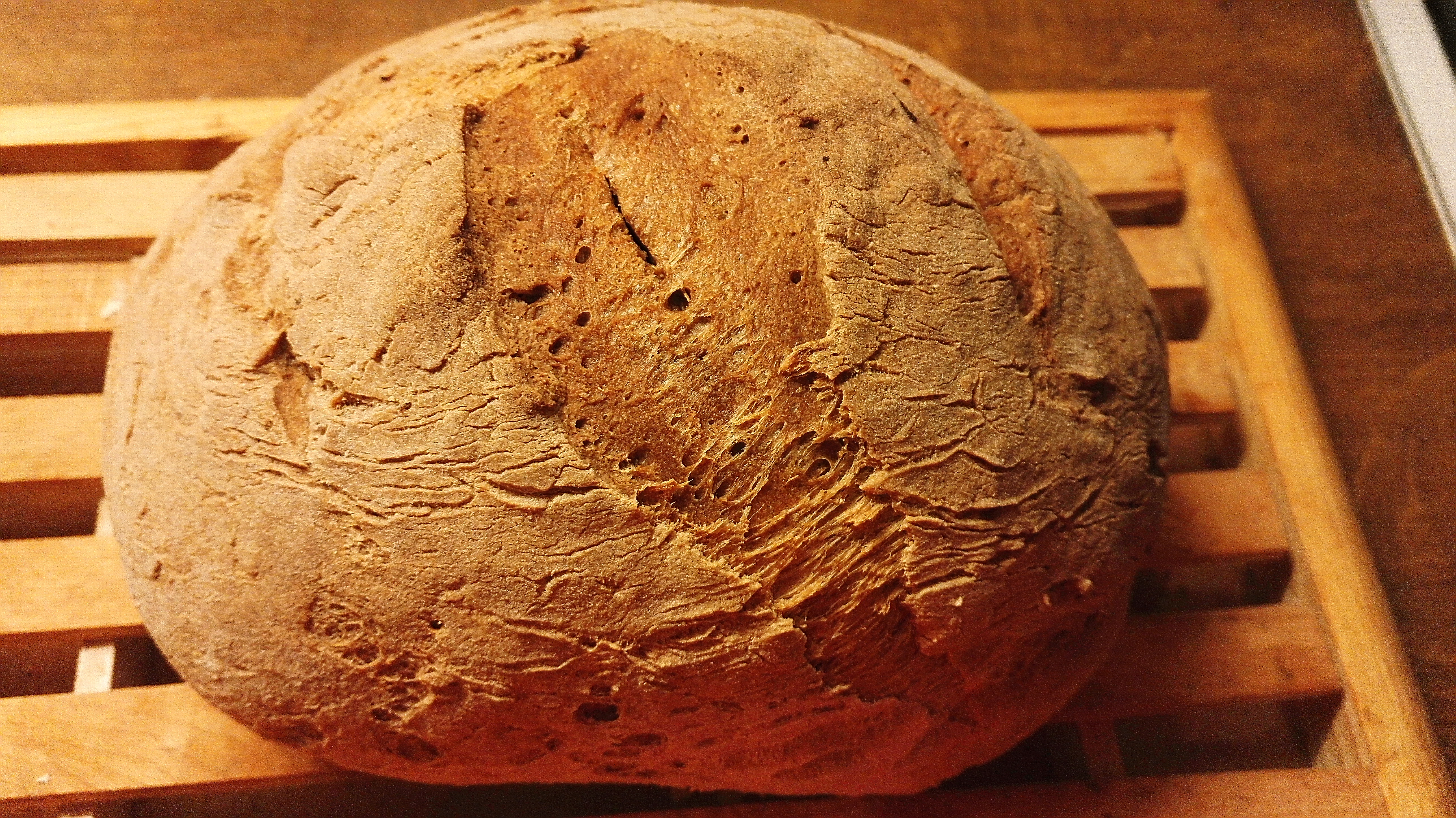 Buckwheat bread made from flour mix containing buckwheat flour, millet flour, tapioca flour, psyllium seed husks, bamboo fiber flour, baking soda and citric acid